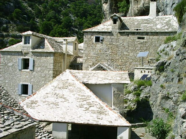 Brač Island, Croatia